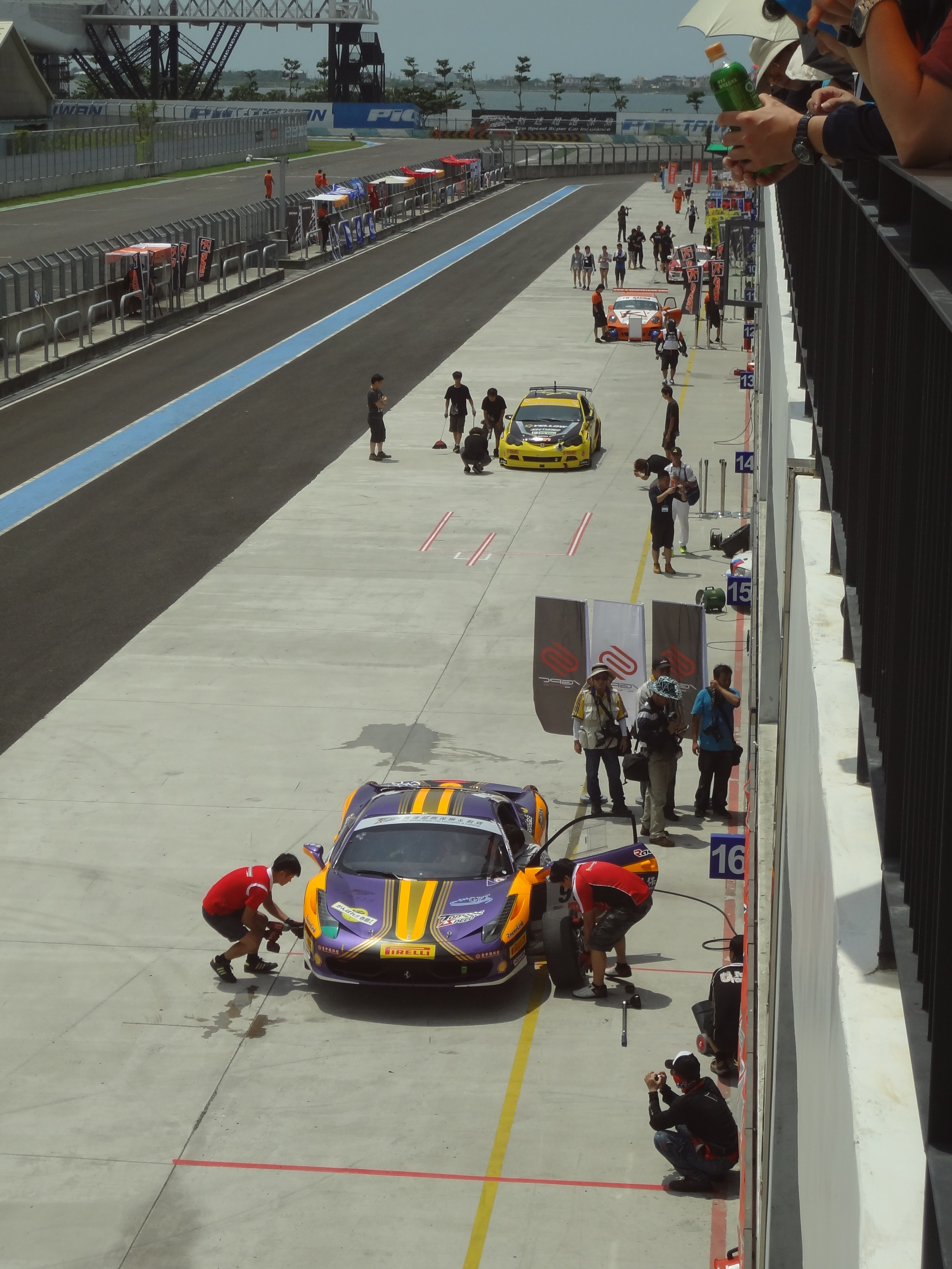 Penbay International Circuit during the 3rd round of the 2013 Taiwan Speed Festival